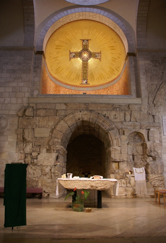 Ecce Homo Church, Via Dolorosa, Jerusalem, Israel - choir